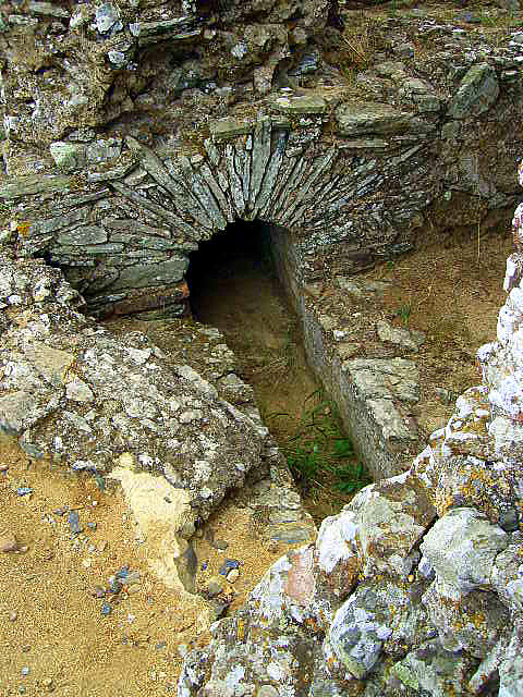 Roman Ruins of Villa Áulica and Convent of São Cucufate - roman canalisation - Vidigueira / Portugal